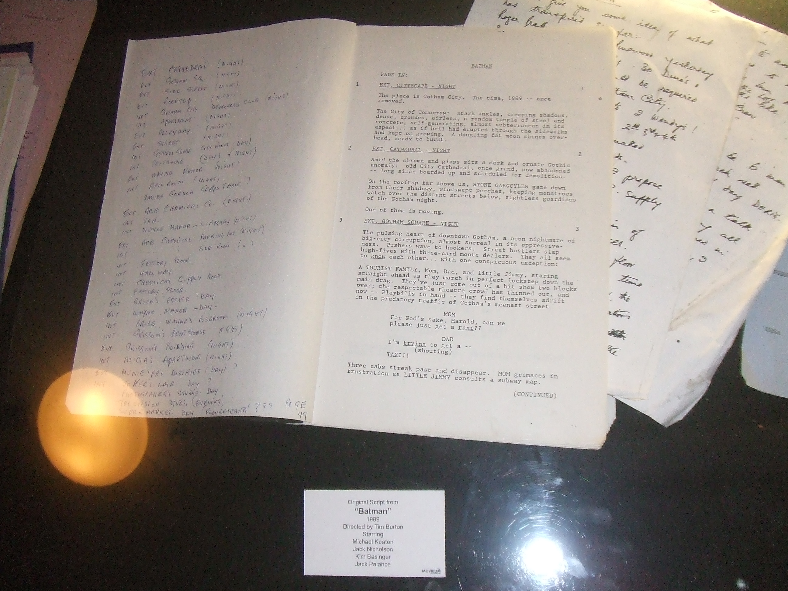 Original script from Batman (1989) displayed at the London Film Museum. “ Original script from "Batman" 1989 Directed by Tim Burton Starring Michael Keaton Jack Nicholson Kim Basinger Jack Palance ”